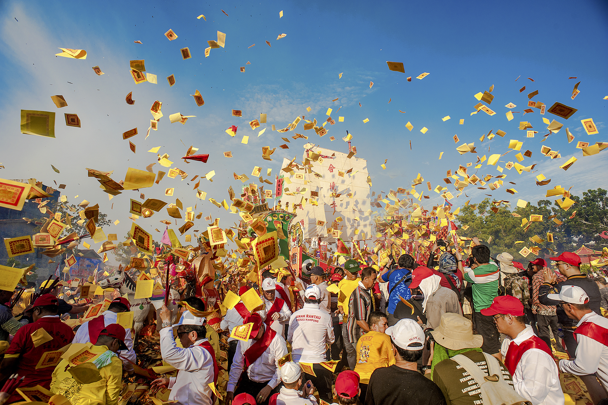 Festival Bakar Tongkang or Ship Burning Festival is a Chinese festival celebrated in Bagan Siapi-api, Riau. The festival approximately attracted seventy thousand domestic and foreign tourists and becomes the annual tourism event